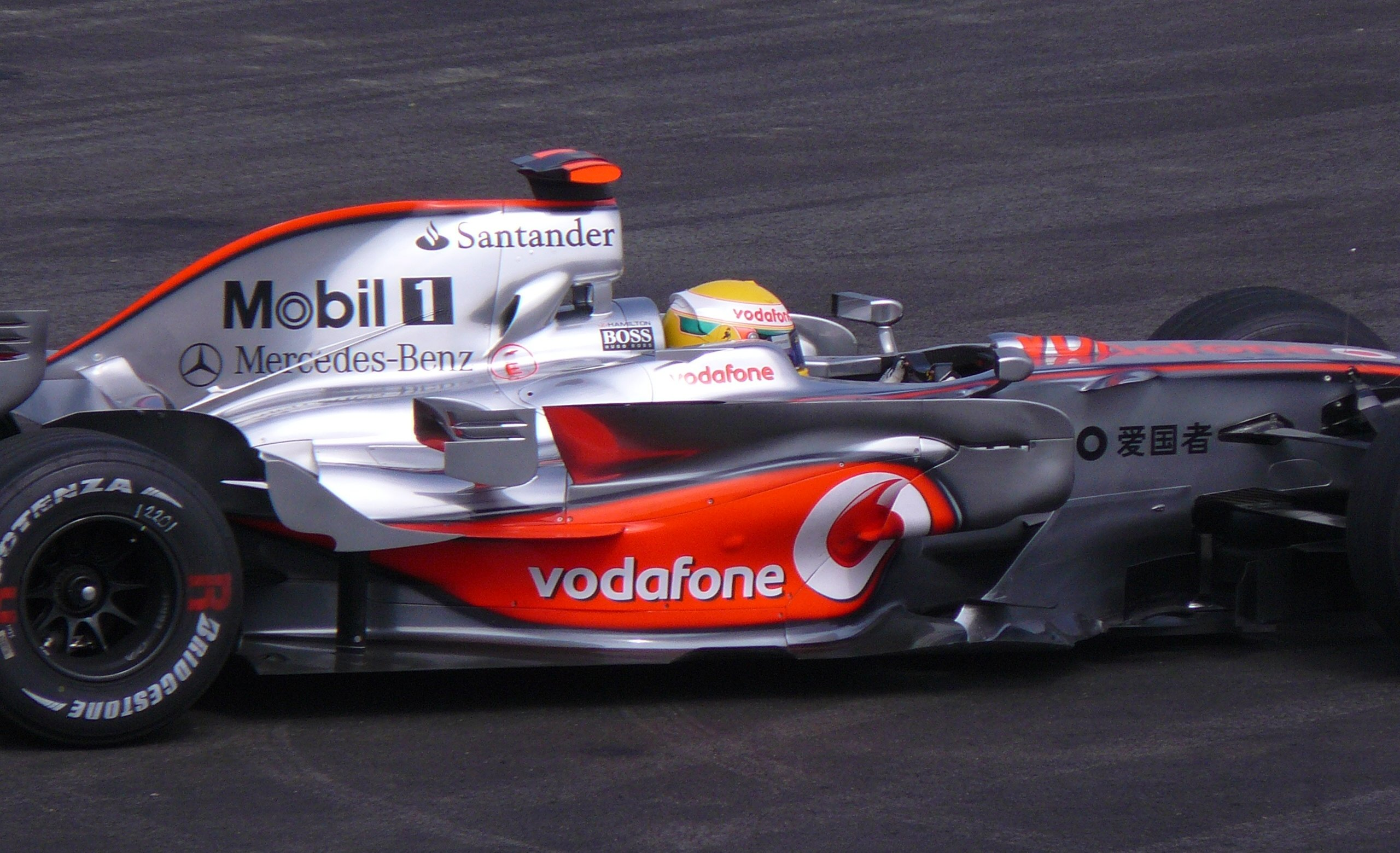 Lewis Hamilton driving for McLaren at the 2008 European Grand Prix.